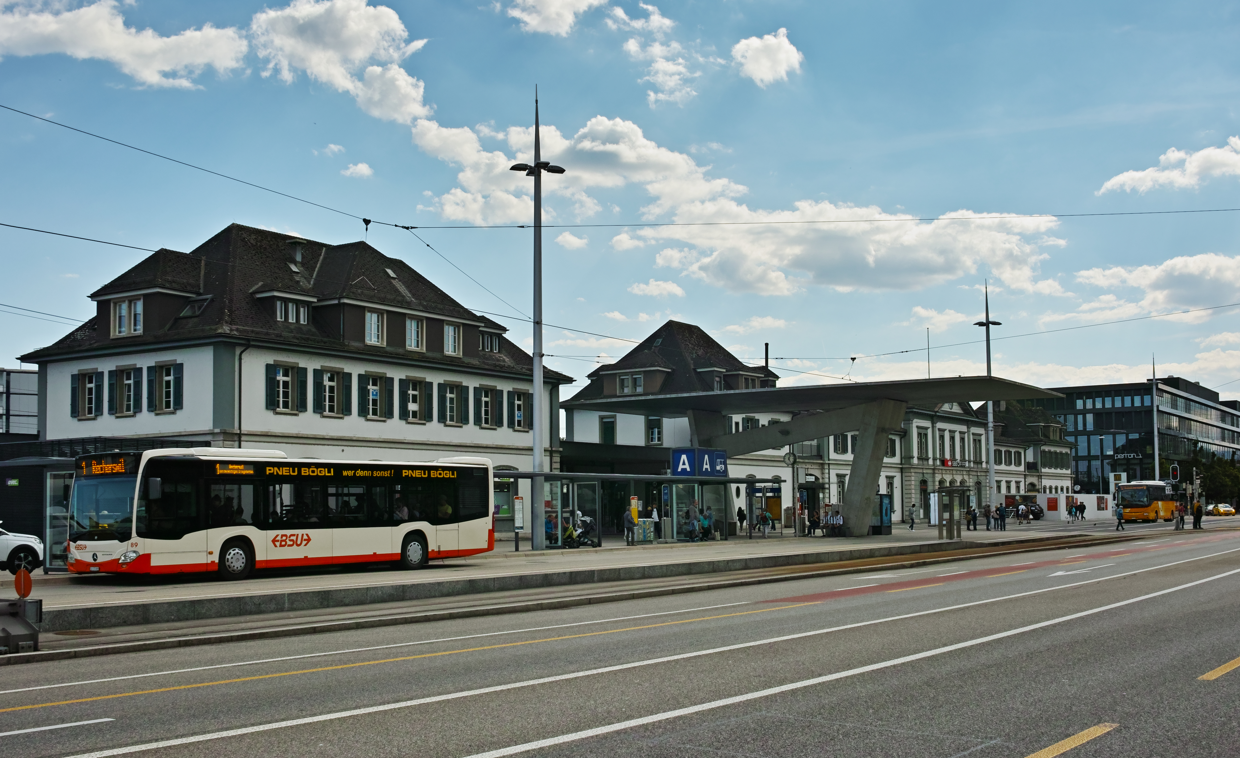 The main railway station of Solothurn, Switzerland. The station's name officially just being "Solothurn", it's often called "Hauptbahnhof" (main station) to differentiate between this and other stations in Solothurn (Solothurn West, Solothurn Allmend). There is a metre gauge railway track adjacent to the street belonging to "Aare Seeland mobil" (formerly "Solothurn-Niederbipp-Bahn"). To the left a bus of BSU ("Busbetrieb Solothurn und Umgebung").